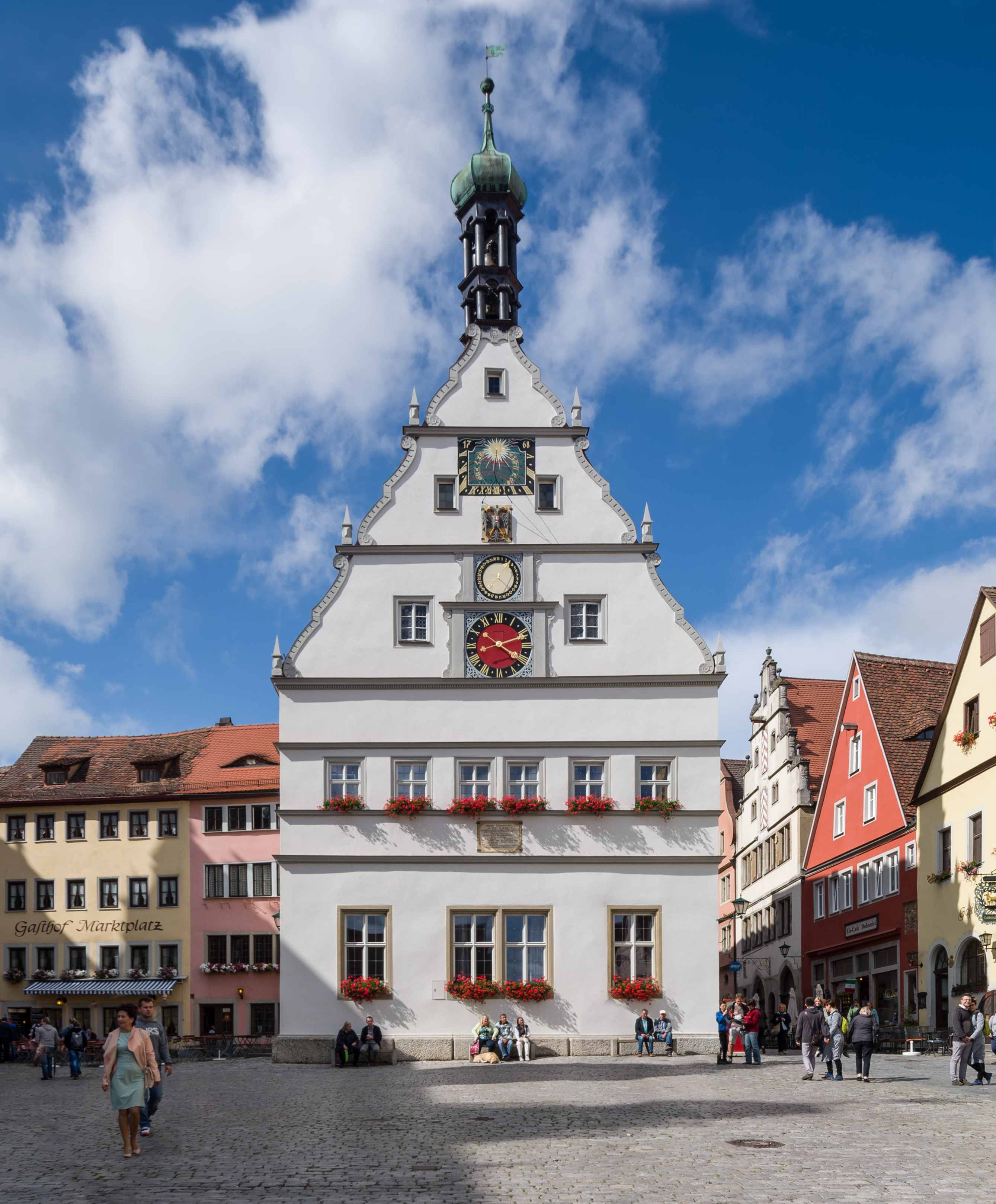 Ratstrinkstube in Rothenburg ob der Tauber